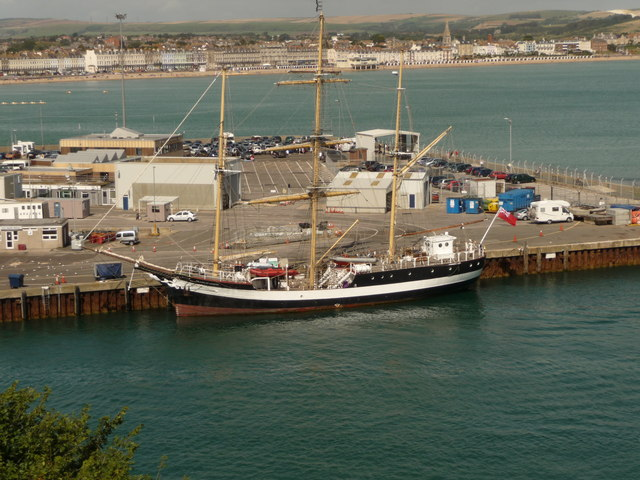 Weymouth - The Pelican Of London This fine ship lays alongside the ferry terminal.